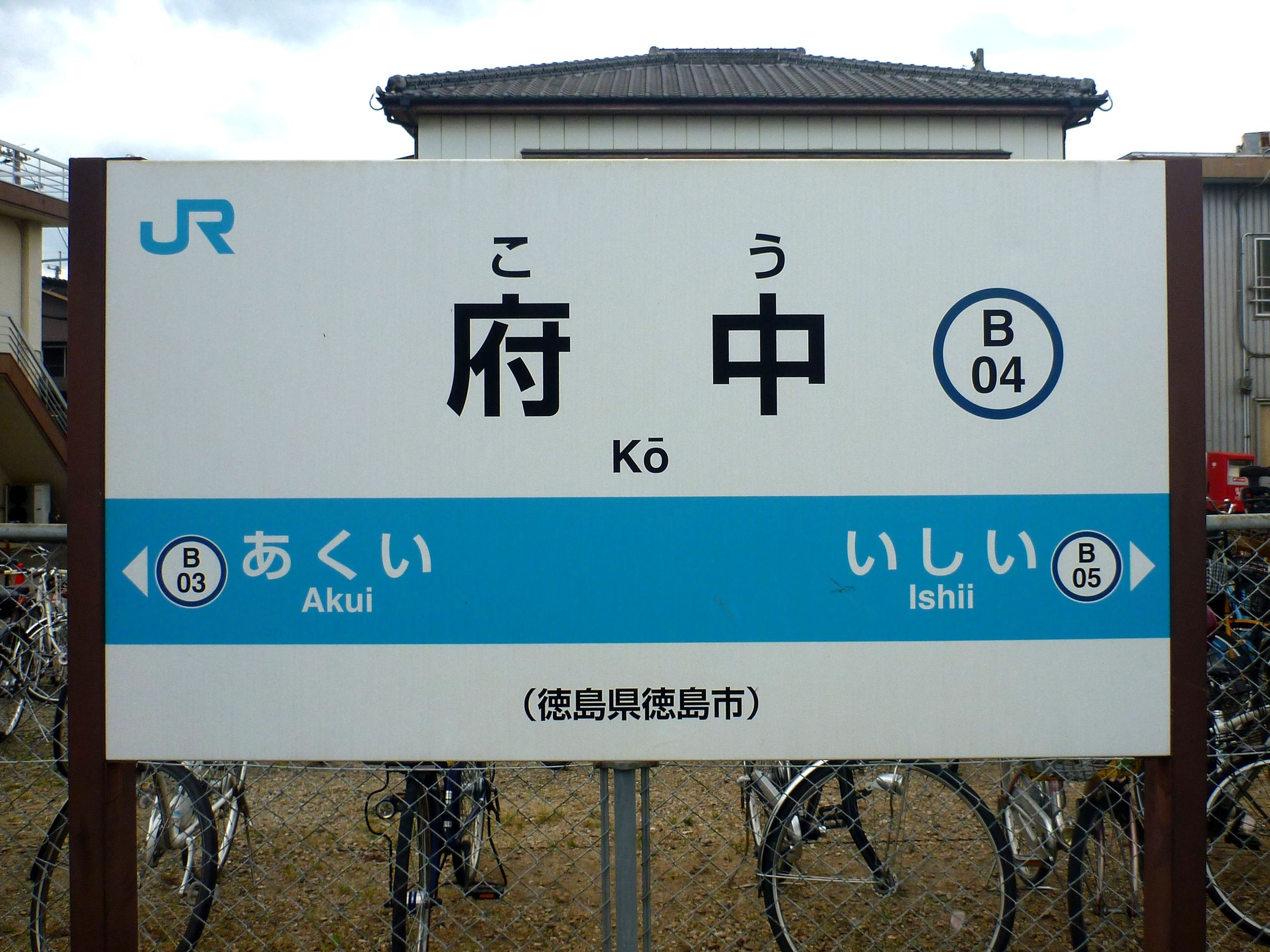 JR Ko Station